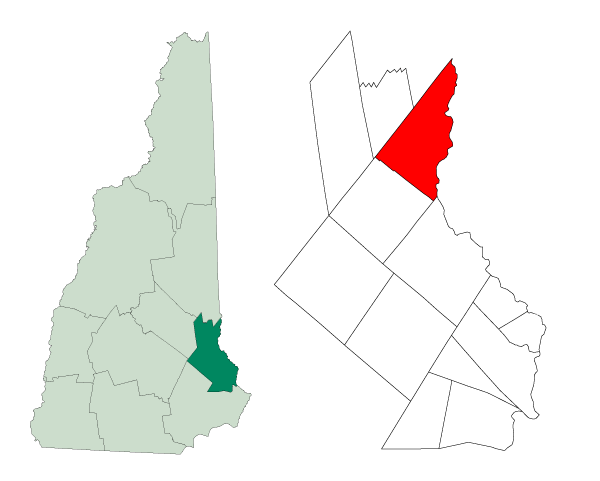 Created from Boundary/Border Outline Files of the Libre Map Project which held a BY-SA creative commons license. Data origionally from 2000 US Census boundary data.